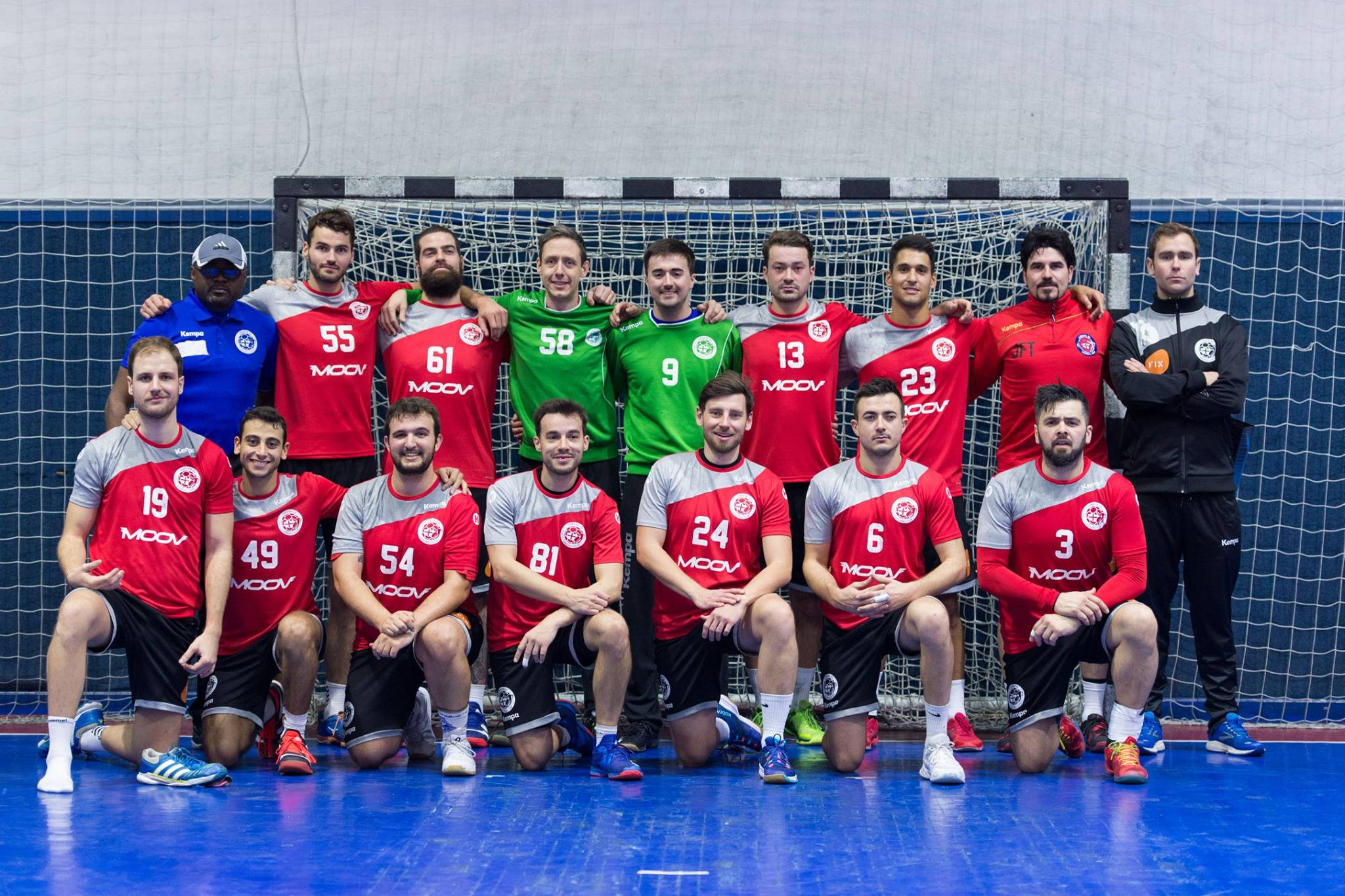 Men Premier Handball League London GD Handball Club